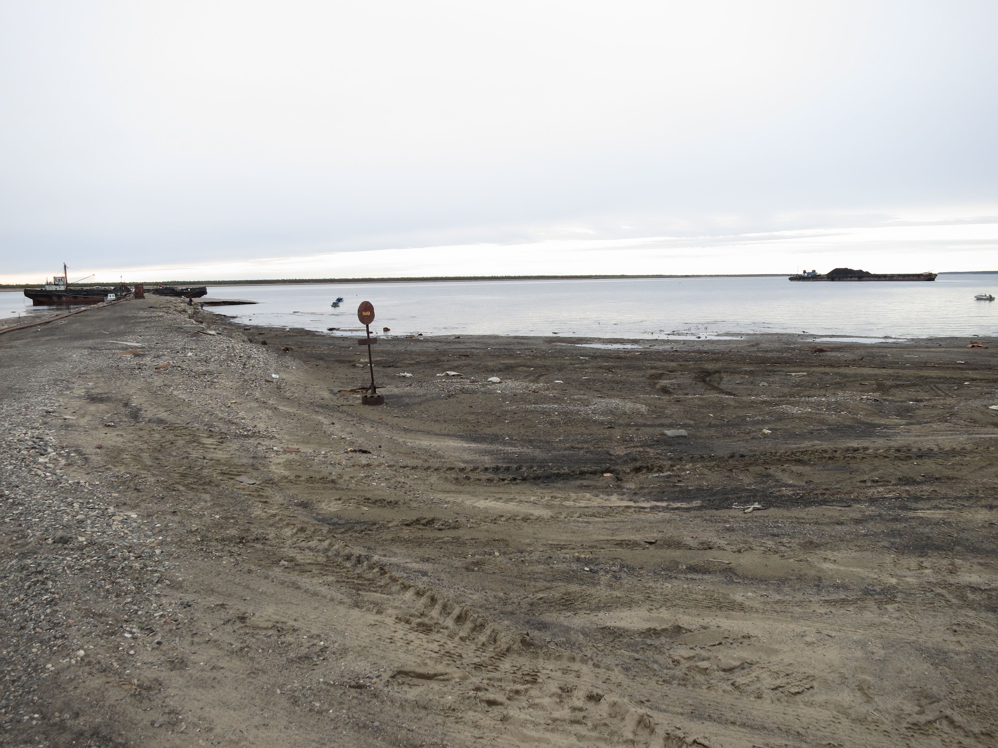 Khatanga river